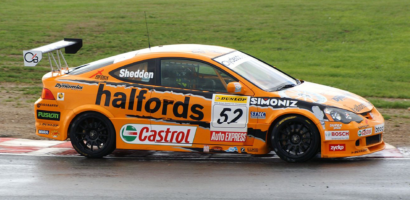 Gordon Shedden driving Honda Integra at Snetterton (2006 BTCC season)